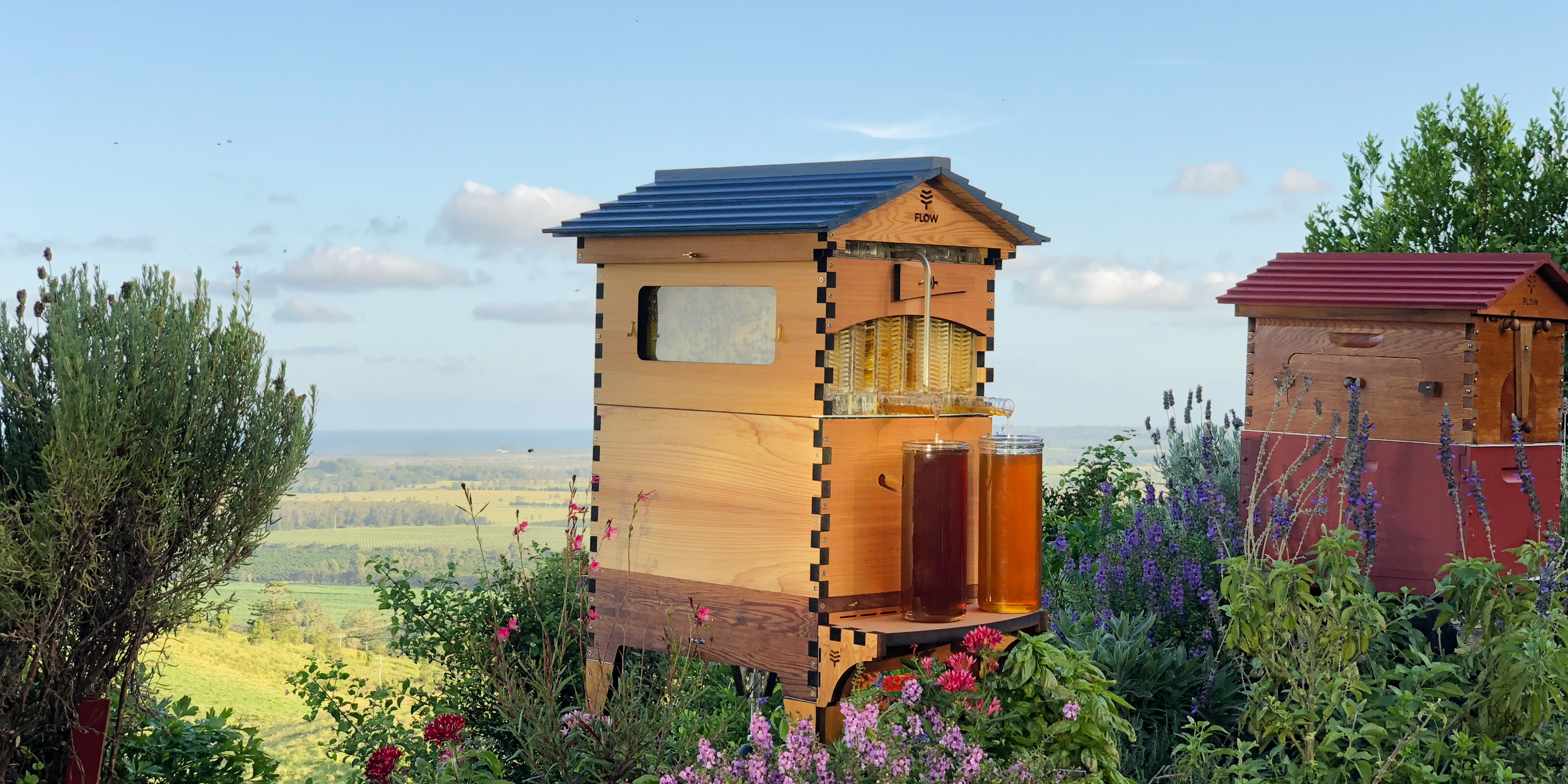 Flow Hive 2 Western Red Cedar with harvesting shelf and honey pouring into jars